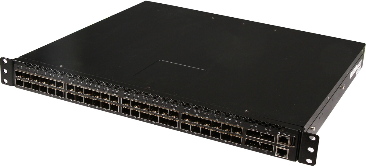 Intel ONP switch reference design